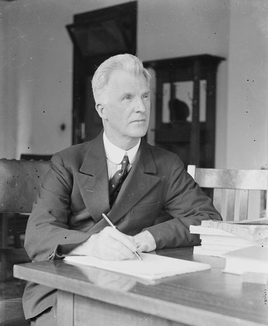 James Scullin at his desk.